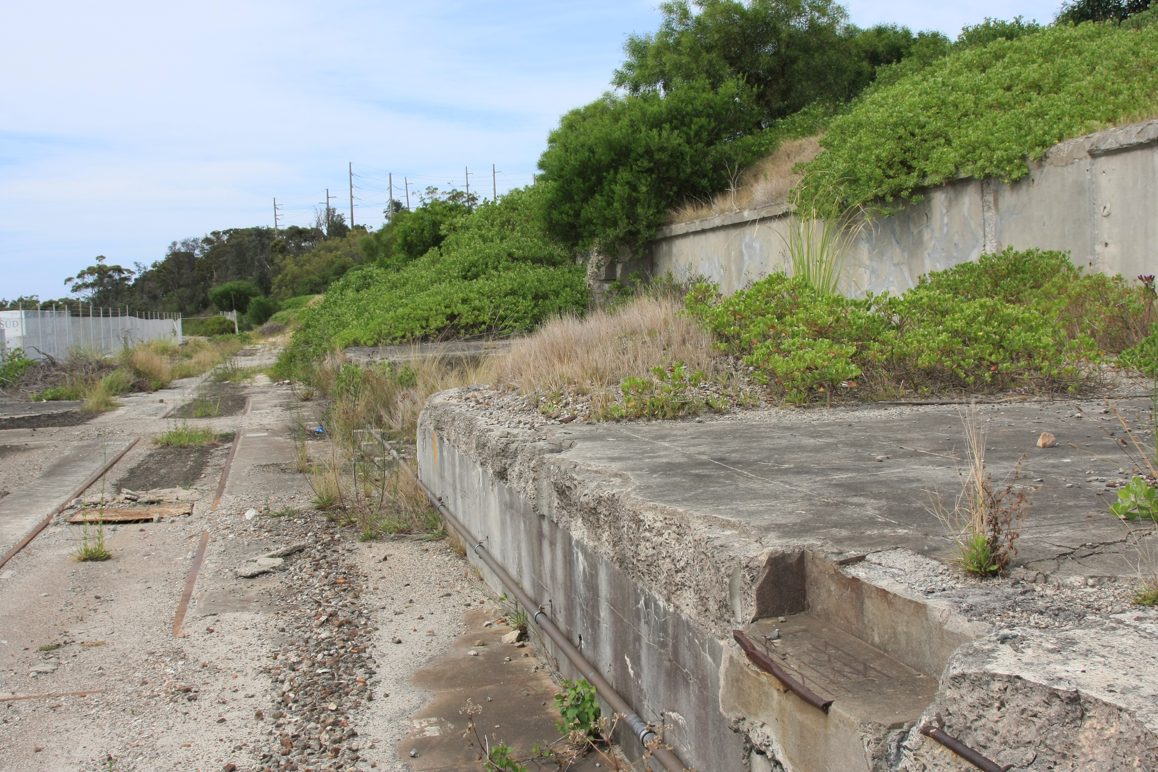 Former entrance to the Bunnerrong Power station coal storage tunnels